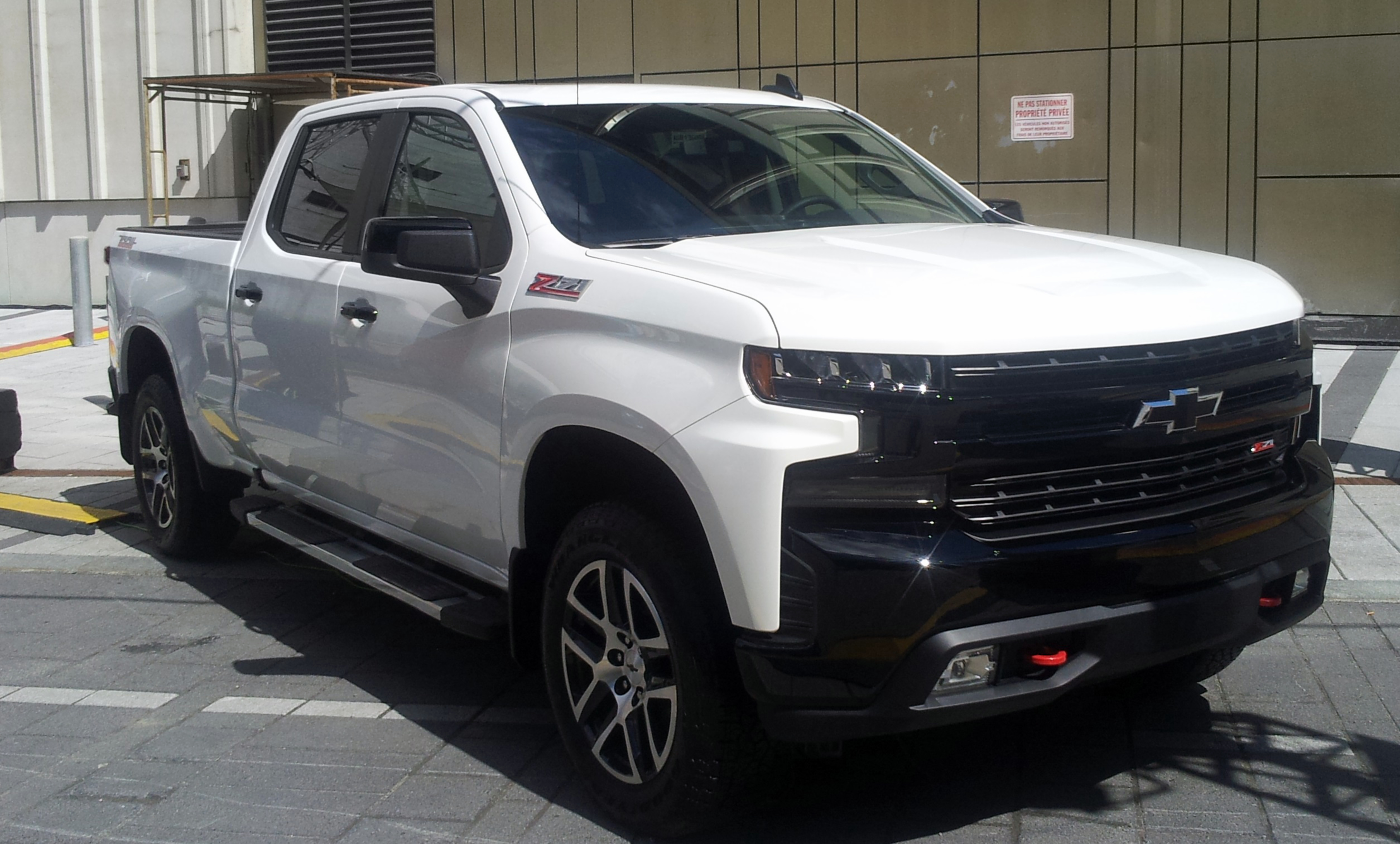 2019 Chevrolet Silverado 1500 photographed in Montréal , Québec, Canada at thé 2019 Francos Festival.